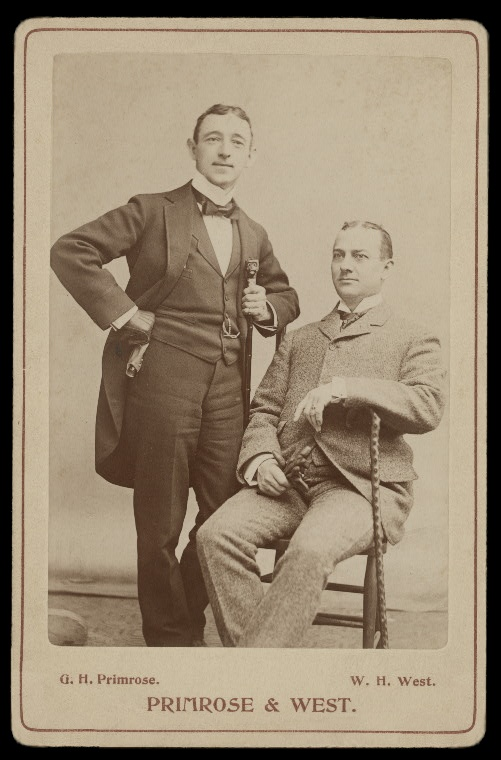 George H. Primrose and Billy West, 1870s blackface song-and-dance team.